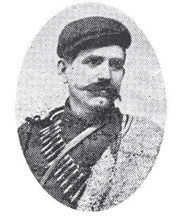 Portrait of IMARO Voivoda Kocho Tsonkata